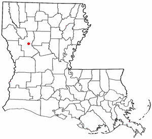 Locator map of Natchitoches — in Natchitoches Parish, Louisiana